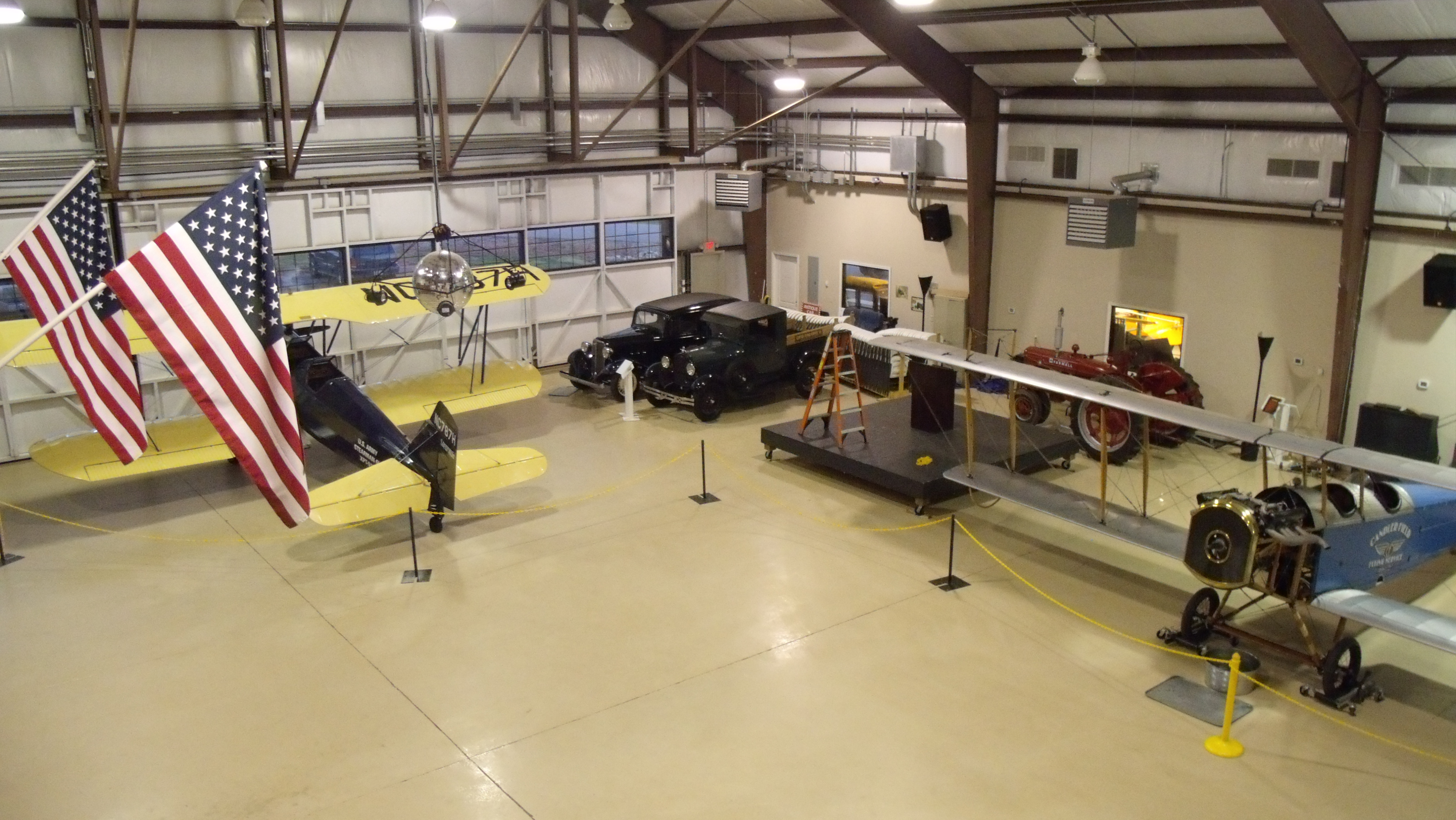 Inside of American Airways hangar at Peach State Airport (GA2). Aircraft shown are Stearman Cloudboy and Curtiss Jenny (currently under maintenance).